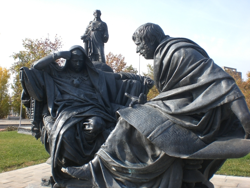 Modern replica of Barrón's Nero and Seneca sculpture. The original plaster version was by Eduardo Barrón, 1904. This copy is at the Glorieta Llanos del Pretorio in Cordoba. Spain.